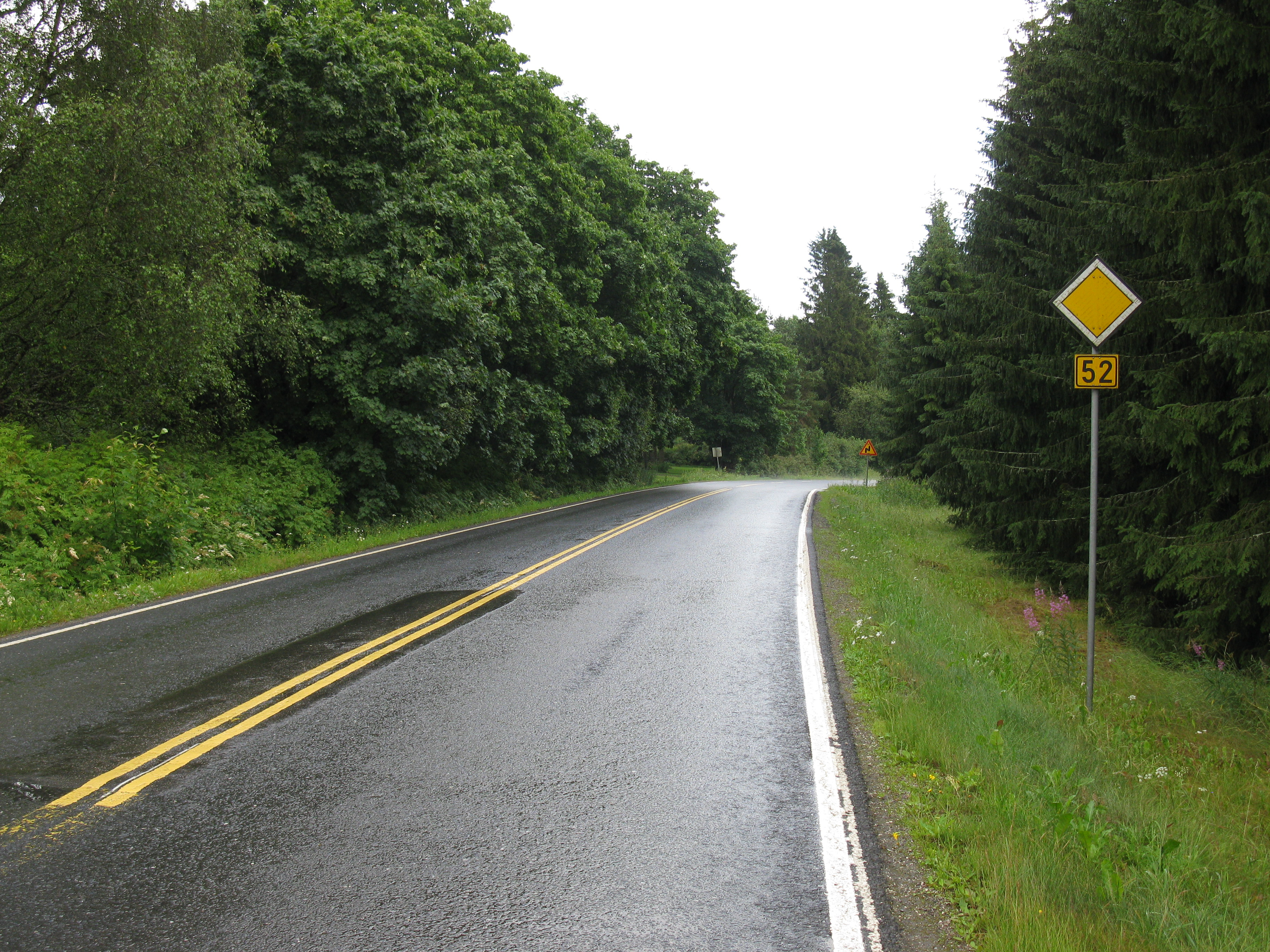 National road 52 (Finland) in Paltta, Somero, Finland Proper, Finland